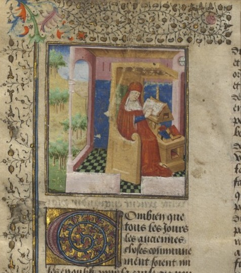 Guido delle Colonne in his study, from a French translation of "Historia destructionis Troiae", ms BNF français 22553